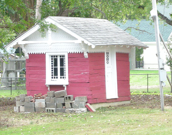 The Garfield Tea House in Elberon, New Jersey, is the only remaining structure directly related to President James A. Garfield's final trip to Elberon. Photo taken October 2007 by Kevin C. Fitzpatrick.